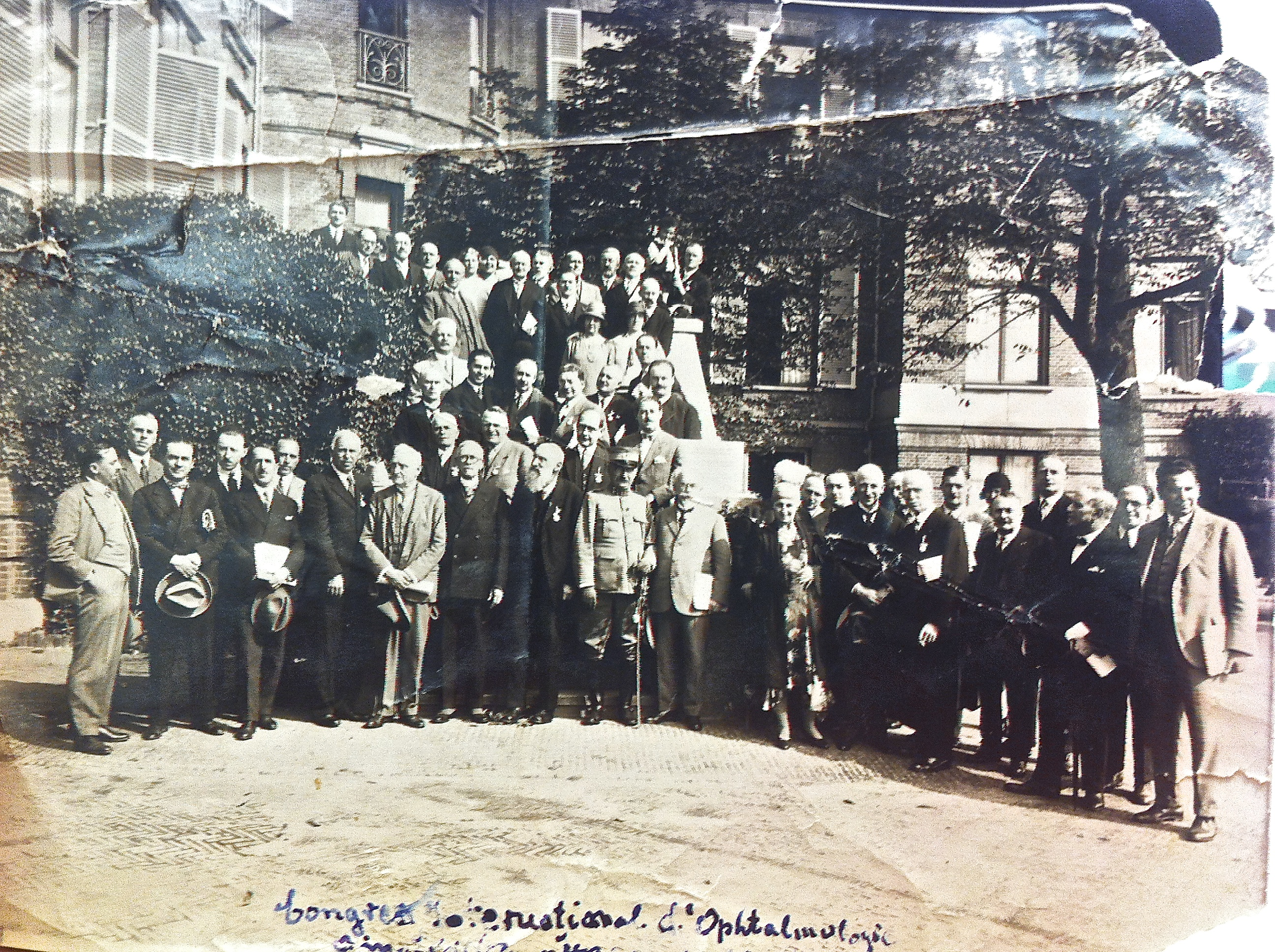 This is a group picture of the participants to the International Congress of Ophthalmology in Hague in 1939. Nicolae Blatt is in this picture.